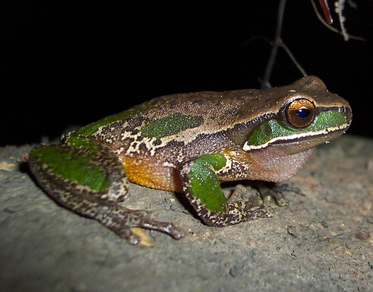 A male Davie's Tree Frog (Litoria daviesae) from Barrington Tops National Park NSW.